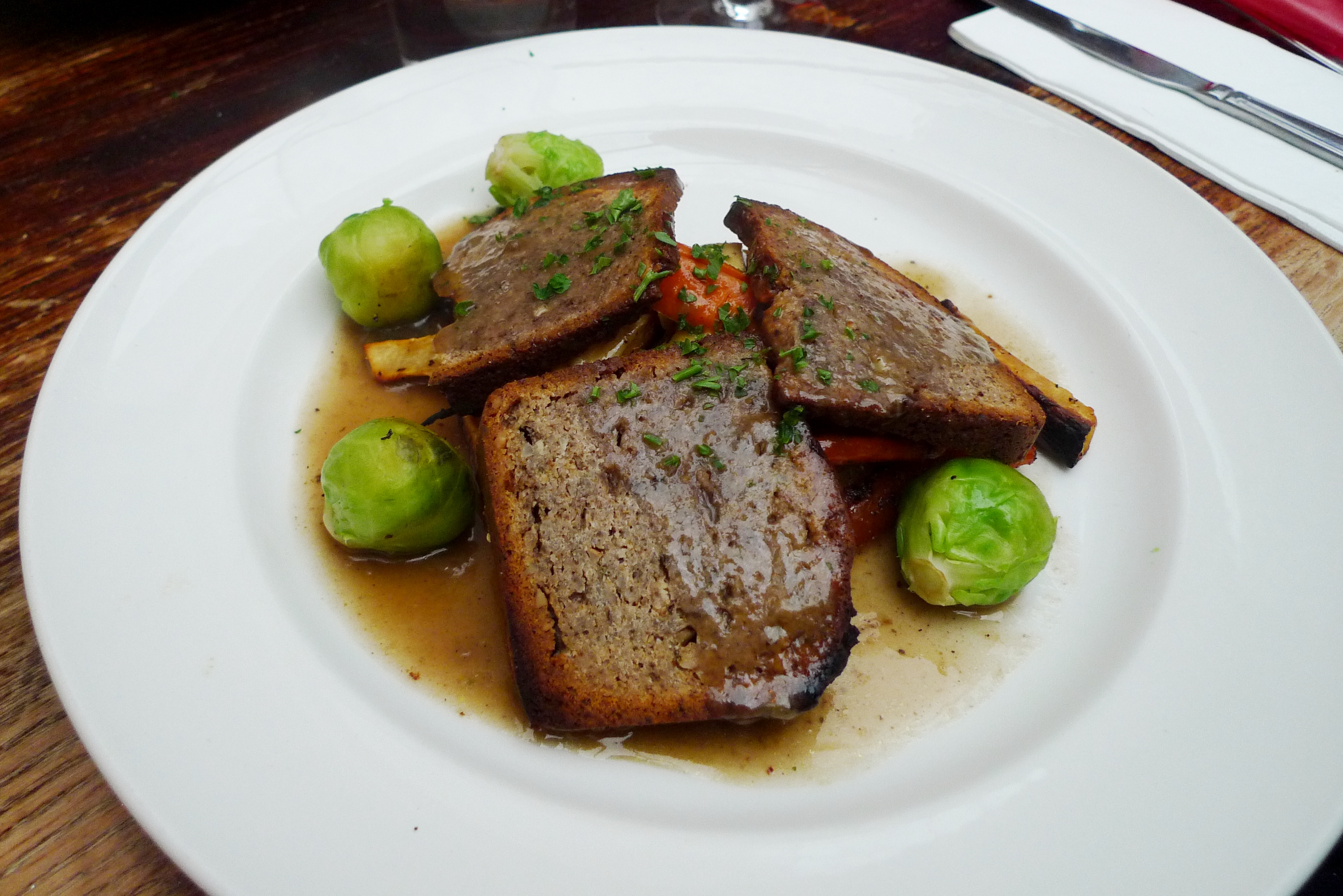 The "luxurious nut roast", on the Christmas menu. At The Gunmakers, Eyre Street Hill.